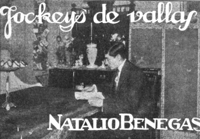 Natalio C. Banegas "At Home" reading an article about the City of La Paz's port construction. Fray Mocho Magazine, issue number 118, 31|VII|1914, Pg. 70